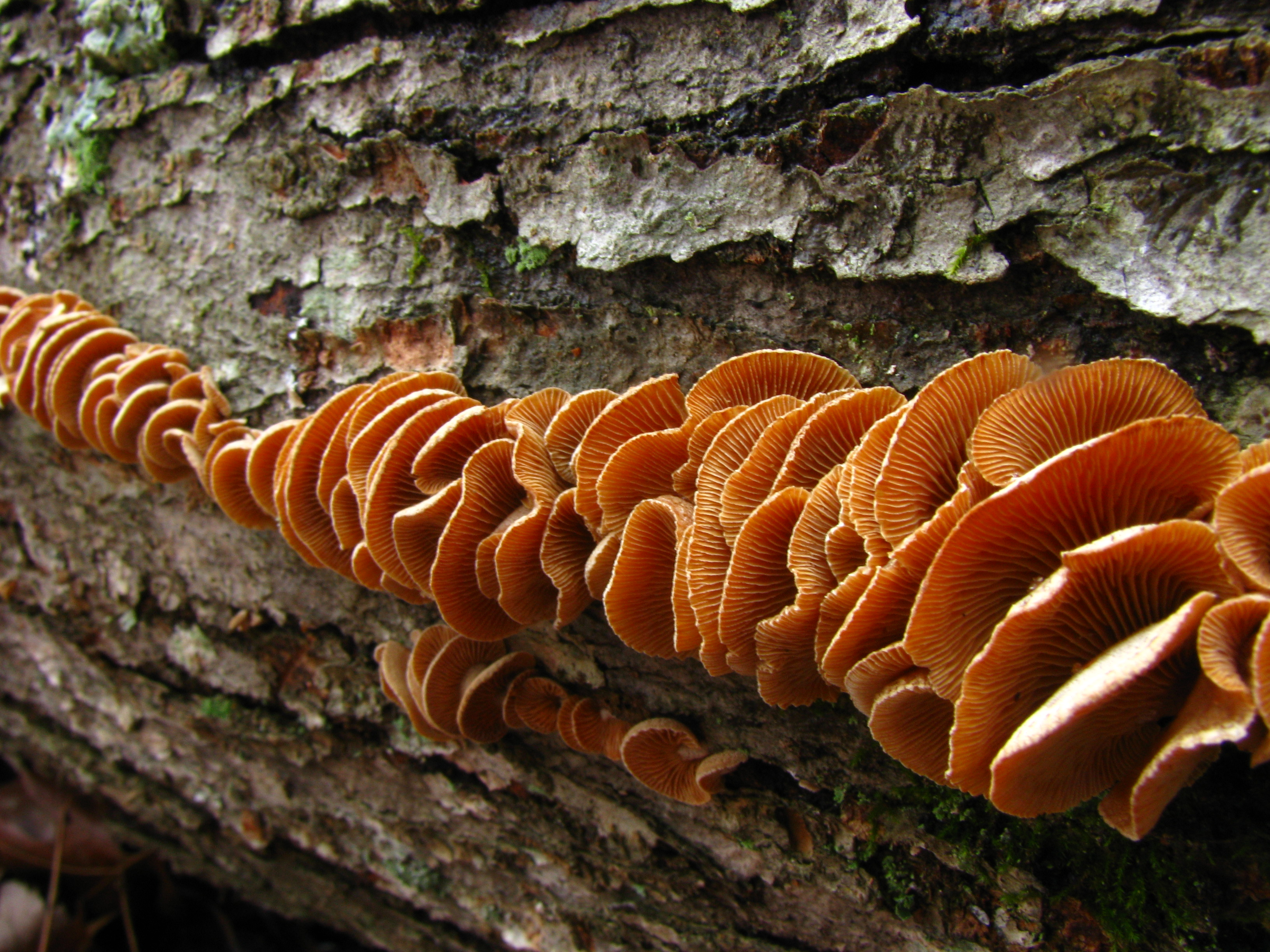 A cluster of the fungus Panellus stipticus (Bull.) P. Karst. Photographed in Strouds Run State Park, Athens, Ohio, USA.